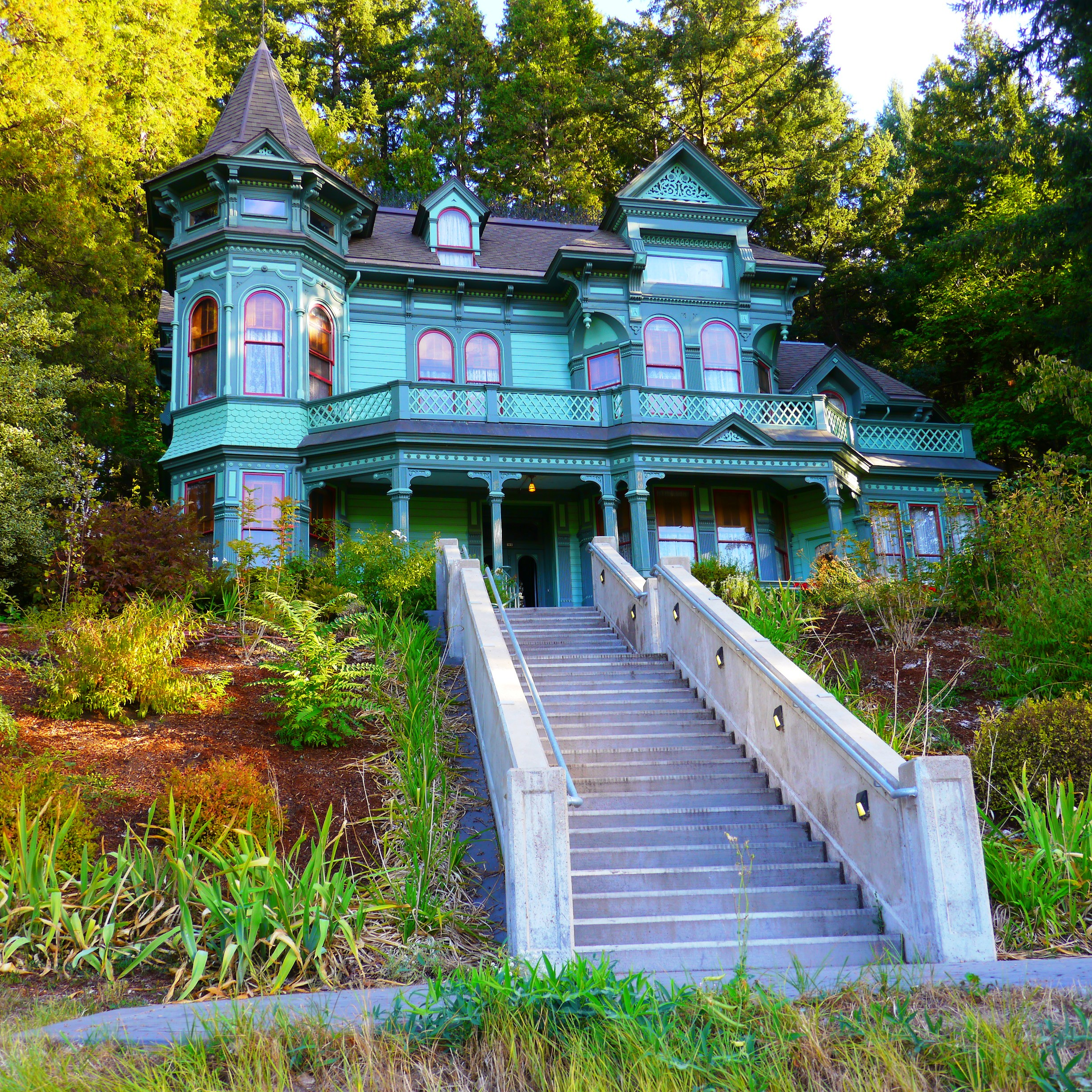 The Shelton McMurphey Johnson House, or Castle on the Hill, in Eugene, Oregon, United States, is a Victorian-era residence that is listed on the National Register of Historical Places. (